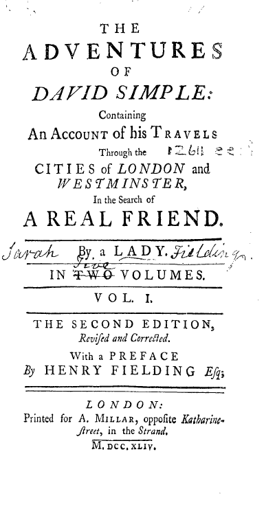 Title page from Sarah Fielding's Adventures of David Simple, second edition